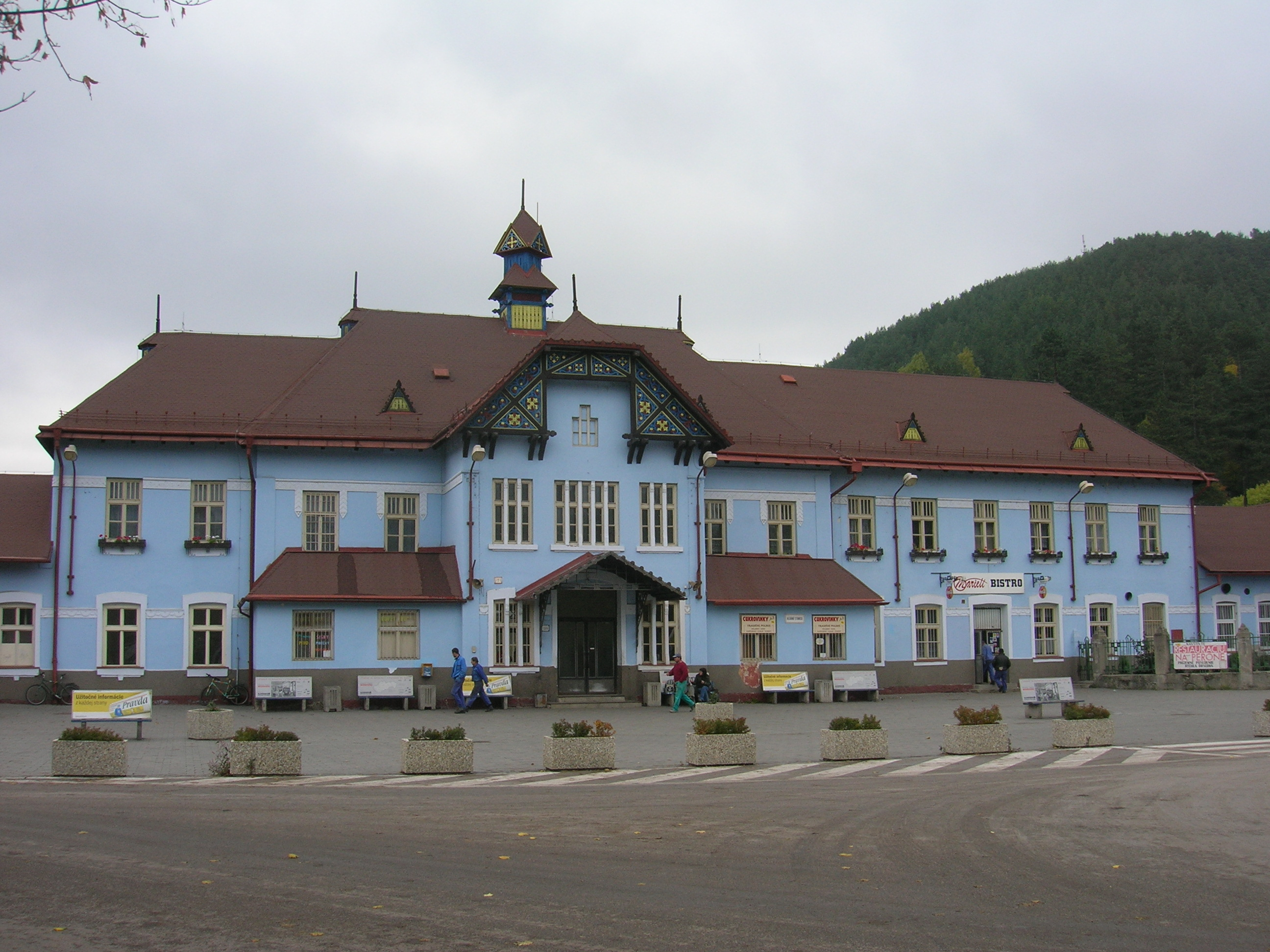 the train station of Ružomberok